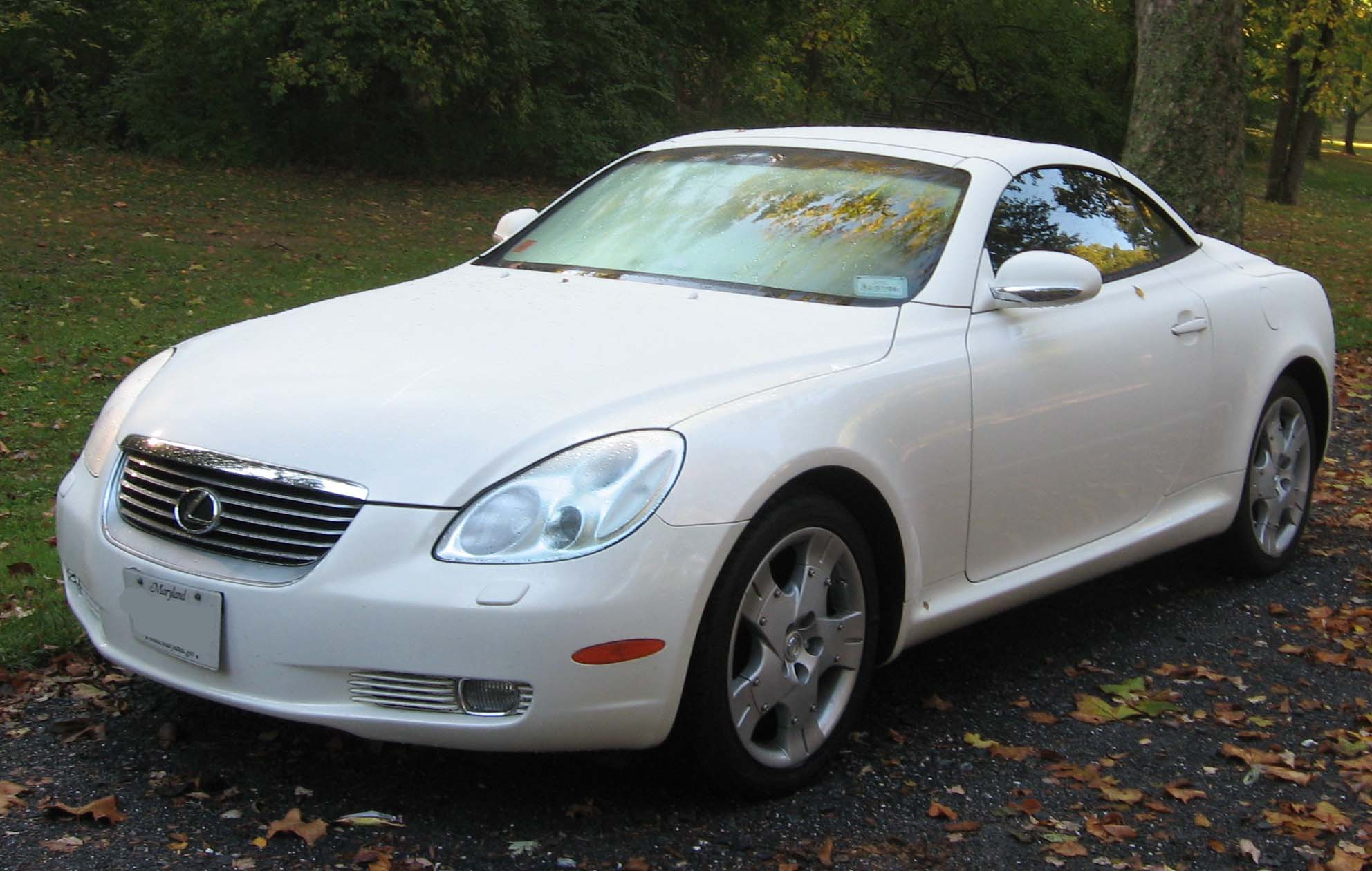 2001-2005 Lexus SC430 photographed in Kensington, Maryland, USA.